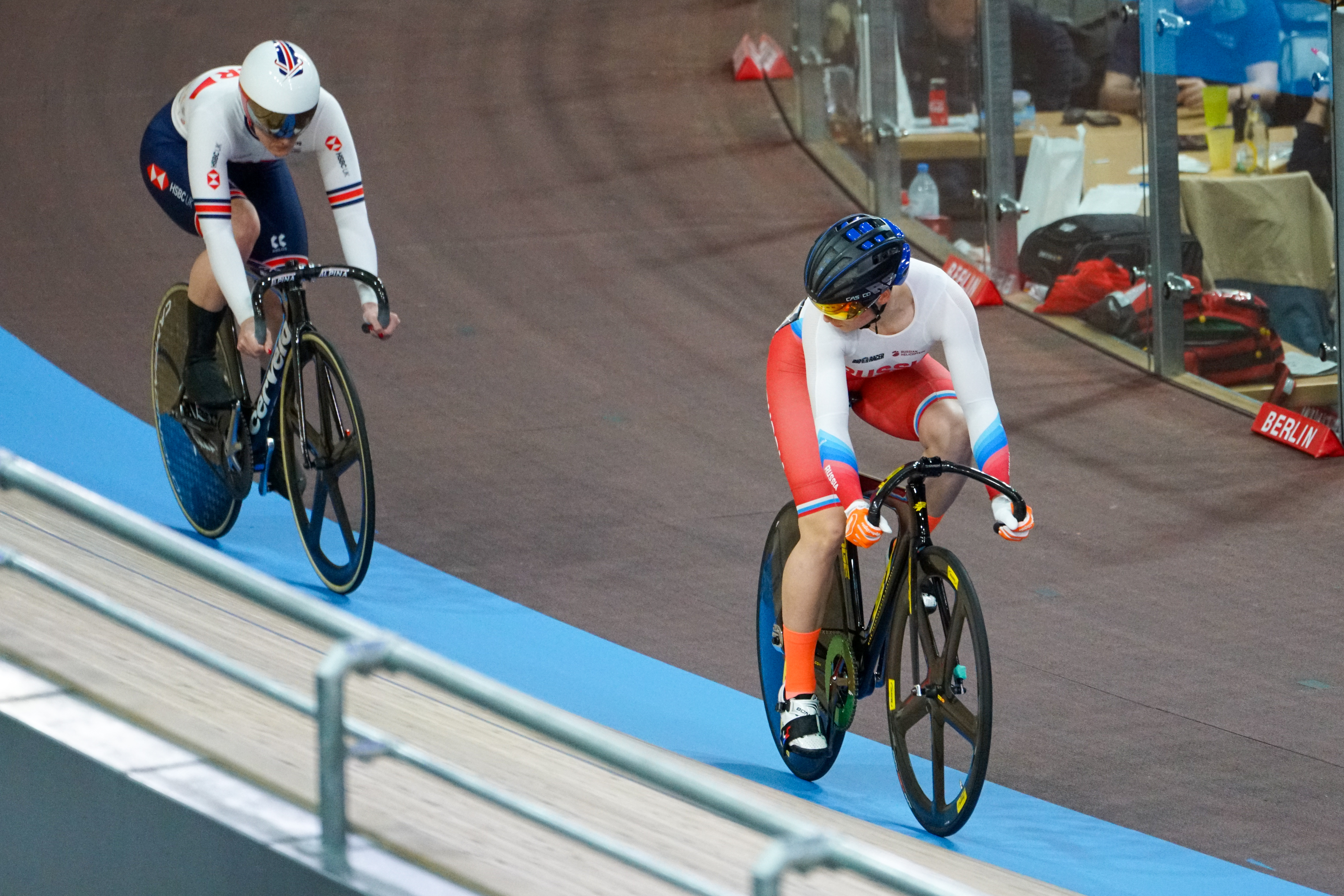 2020 UCI Track Cycling World Championships – Women's Sprint - 1/16 Finals - Daria Shmeleva (vorne), Katy Marchant